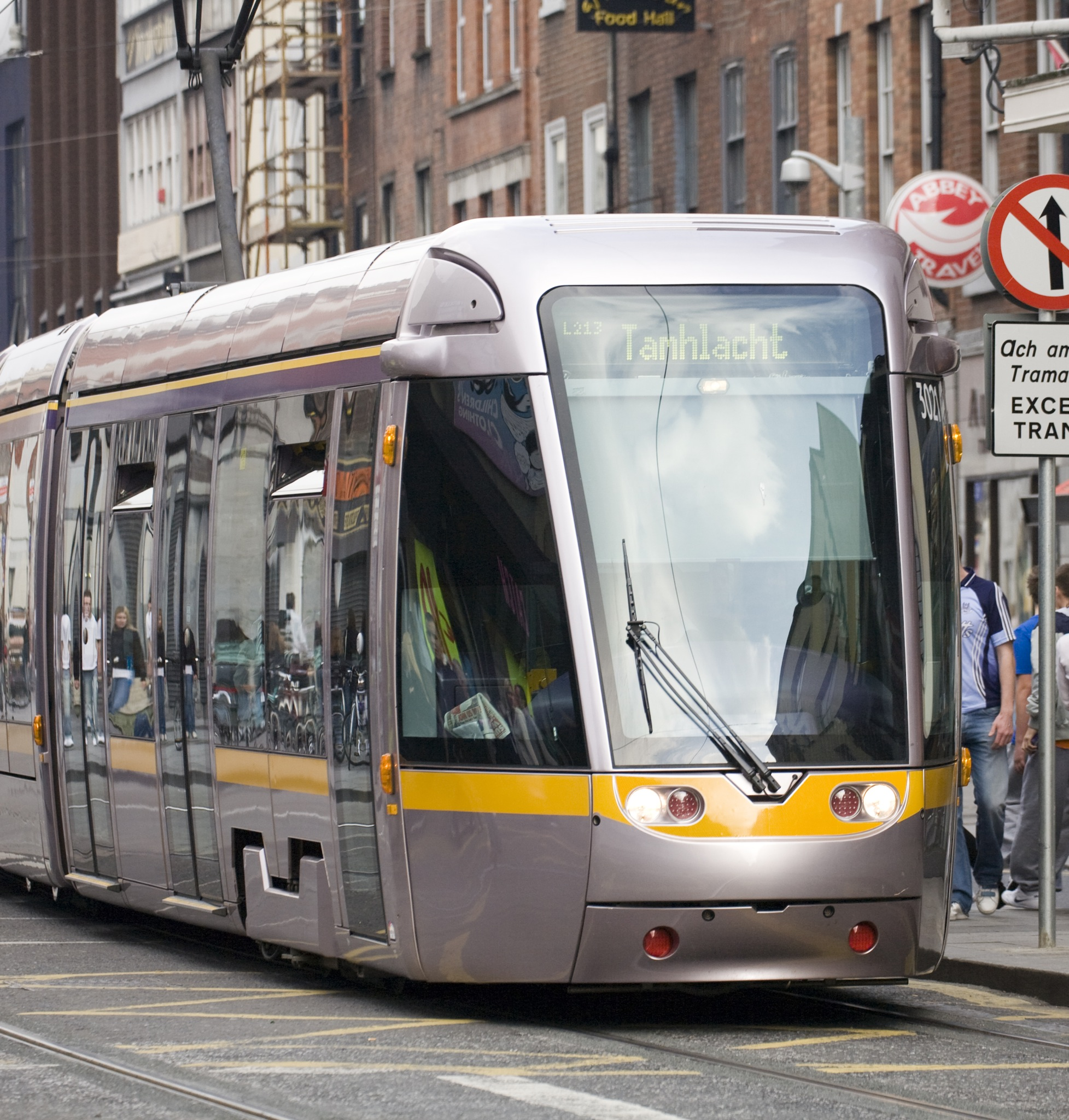 The LUAS - Dublin City Centre (180mm)